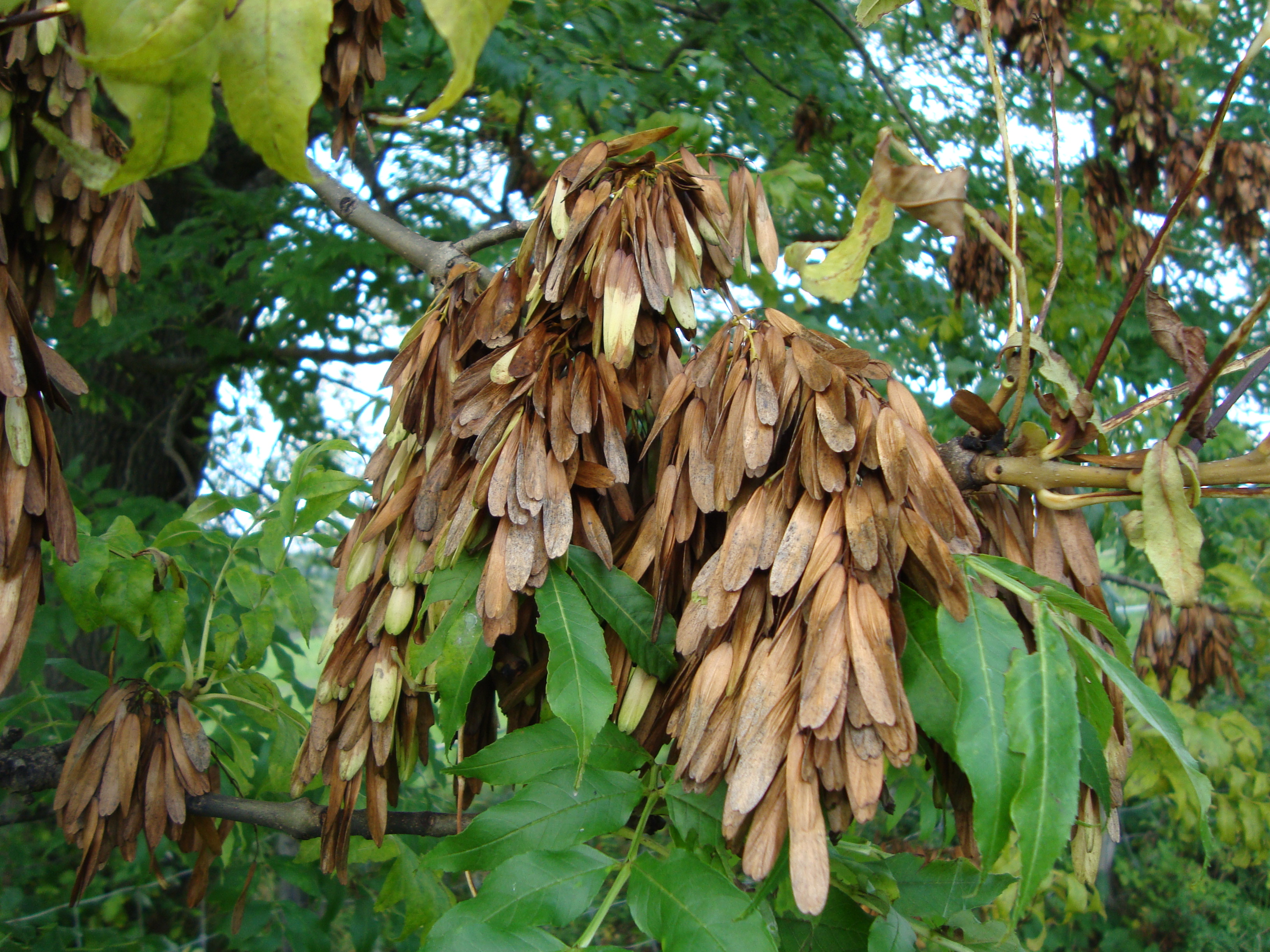 Fruits of Fraxinus excelsior